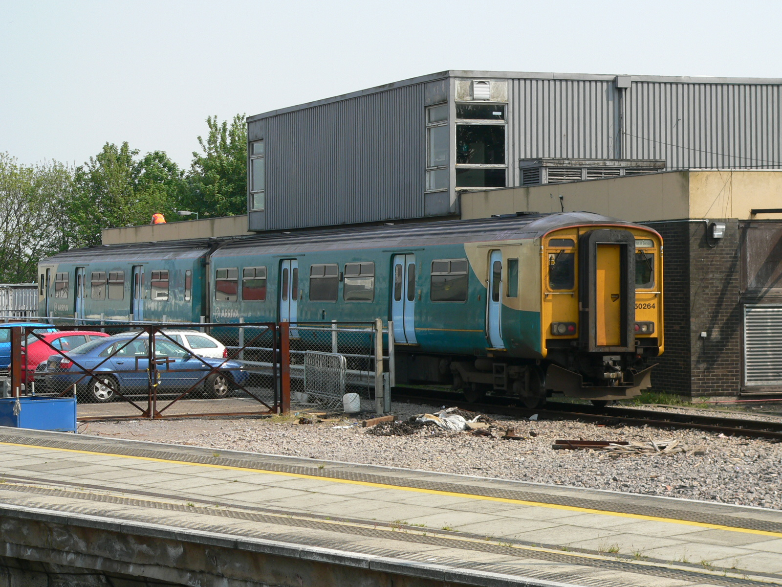 Arriva Trains Wales Class 150 DMU 150264, wearing a rather dirty turquoise and cream corporate Arriva livery, in a siding behind platform 7 at Cardiff Central railway station.